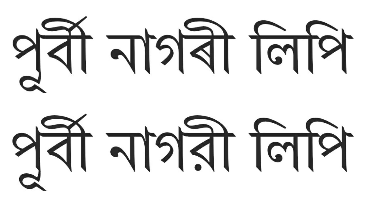 Sample of Eastern Nagari script. Reads Purbi Nagôri Lipi in Assamese (top) and Bengali (bottom).